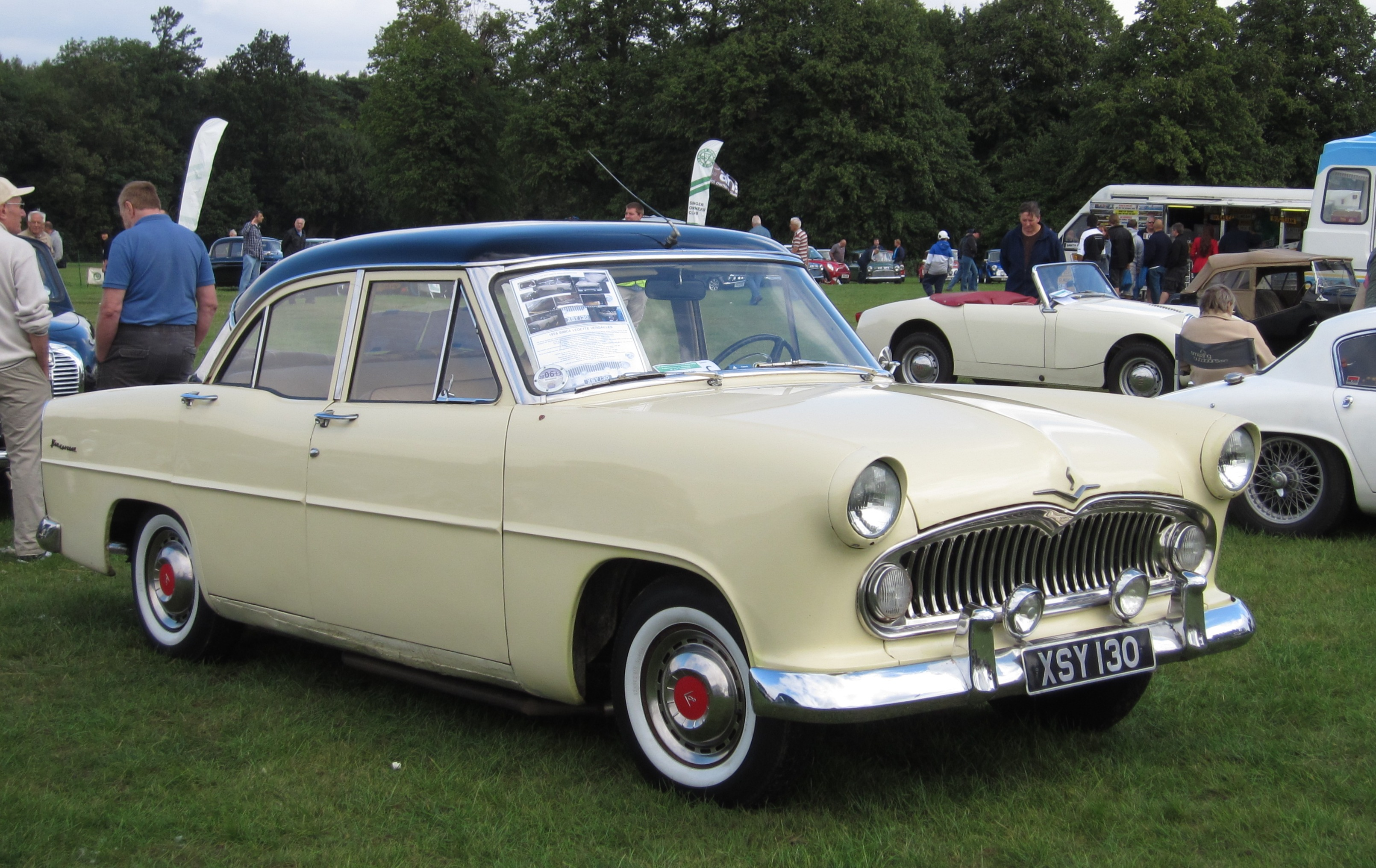 Simca Versailles (part of the family often grouped under "Simca Vedette") at Knebworth classic car show